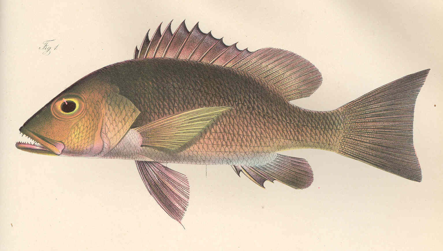 Subject: Lutjanus, Lutjanidae Tag: Fish